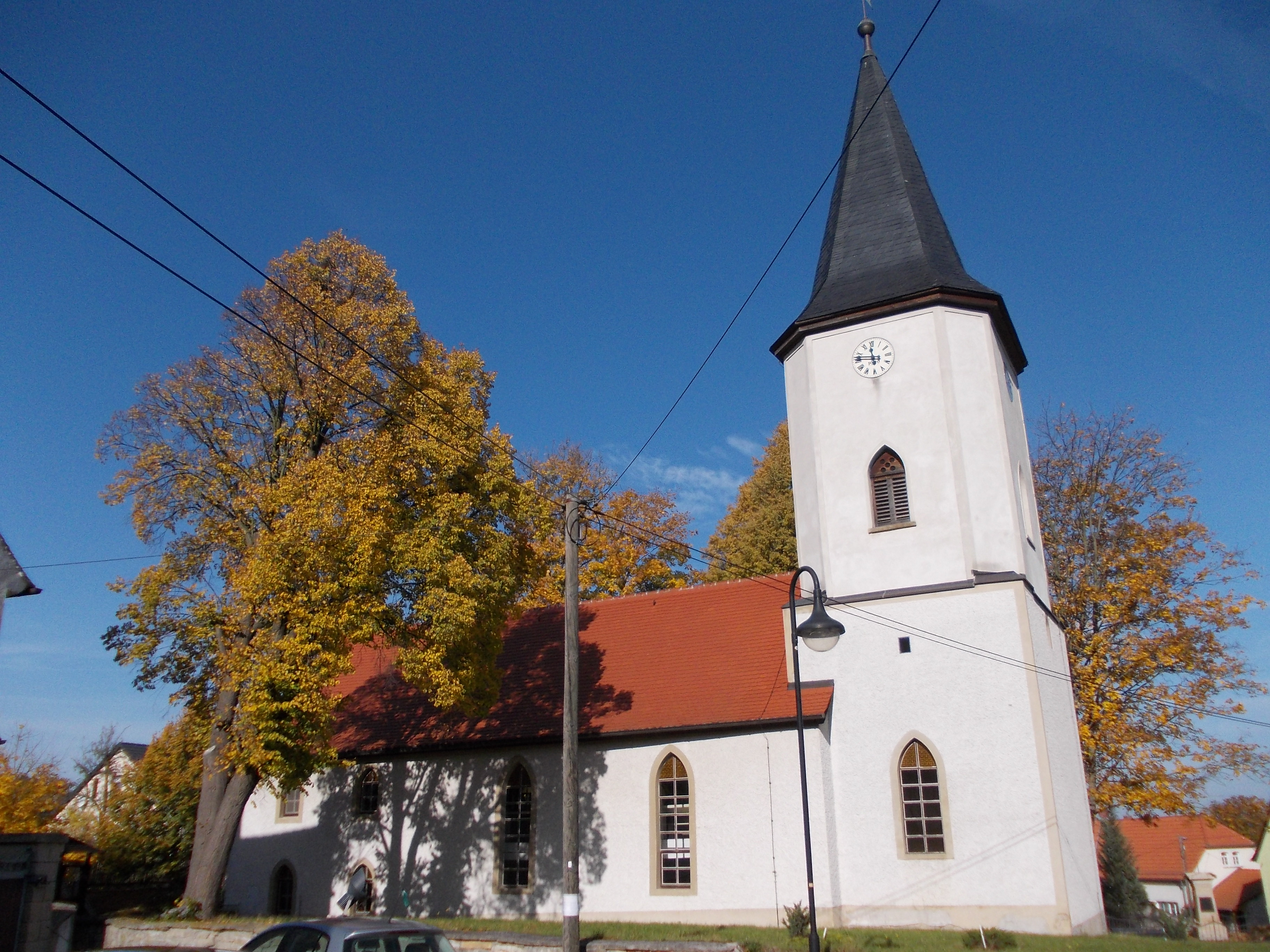 Schellbach church (Gutenbon, district of Bugenlandkeis, Saxony-Anhalt)